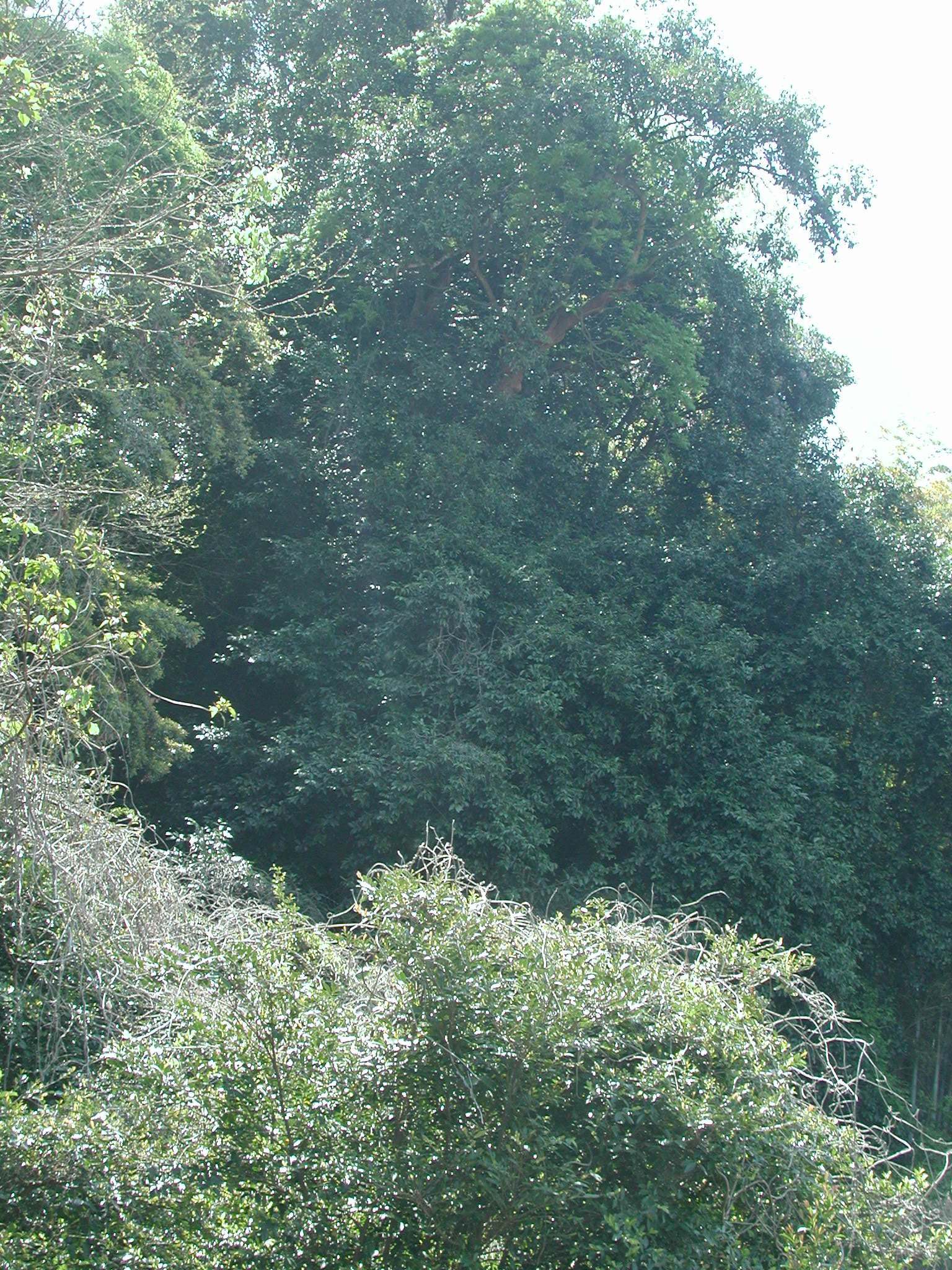 Distant view of Hayakawa no Biranjyu (Prunus zippeliana in Hayakawa), Japan's natural monument. (Hayakawa, Odawara-shi, Kanagawa)